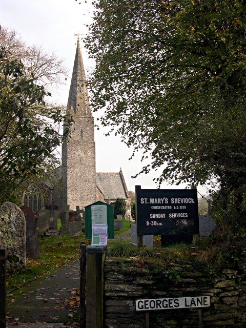 St Mary's Church Sheviock The line underneath the church name on the sign reads "Consecrated A.D.1259"